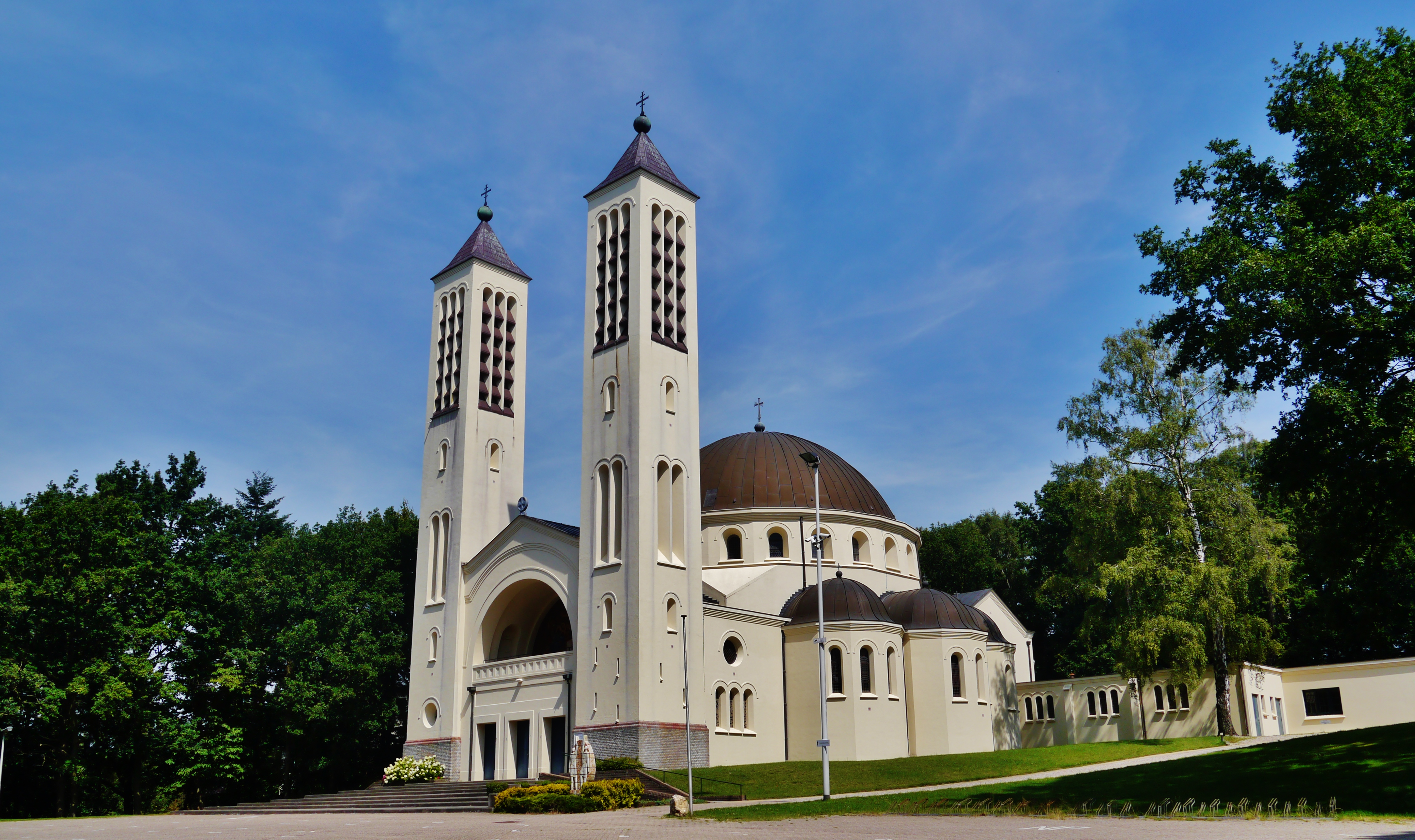 Cenakel Church, Heilig Landstichting, Province of Gelderland, Netherlands